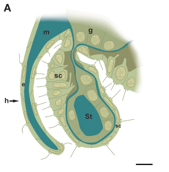 The statocyst (at the distal part of the rhopalium) is covered by an epithelium (hood) situated between the bulb (basal part of the rhopalium) and the statocyst. The connection of the bulb and the statocyst is provided with a compact mesoglea